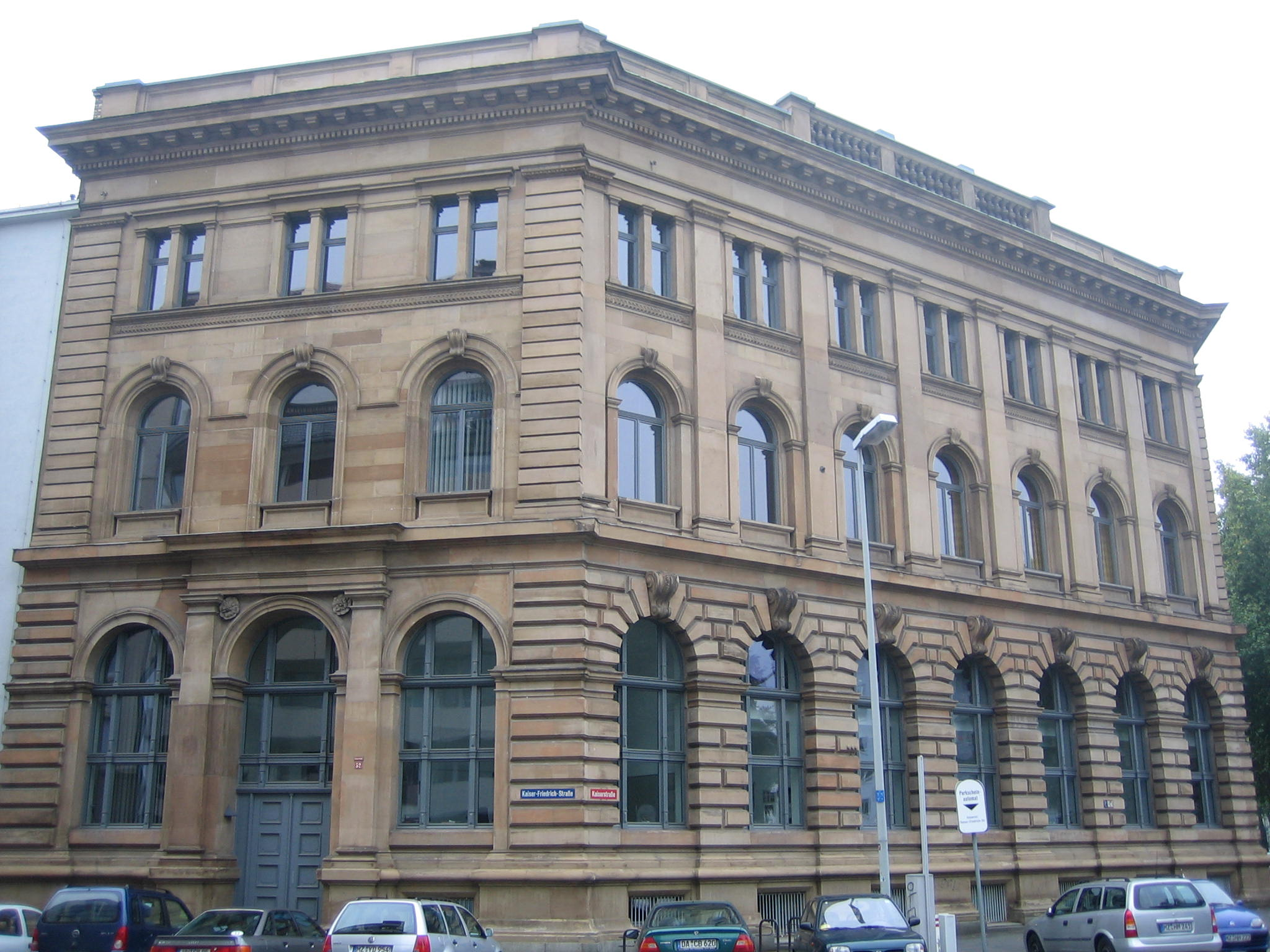 Former Mainz branch office of the Deutsche Reichsbank; three-sided corner building, Renaissance Revival architecture, 1892, architects Havestadt & Contag, Berlin; Nowadays part of the Ministery for Economy, Transport, Agriculture and Viticulture Rhineland-Palatinate